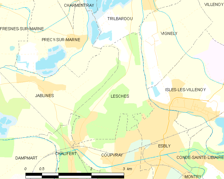 Map of French municipality Lesches